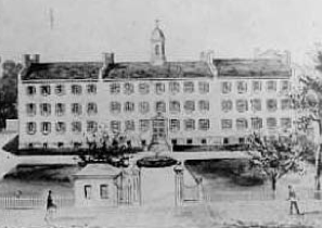 An artist's rendering of Sisters of Charity Hospital in Buffalo's first building.